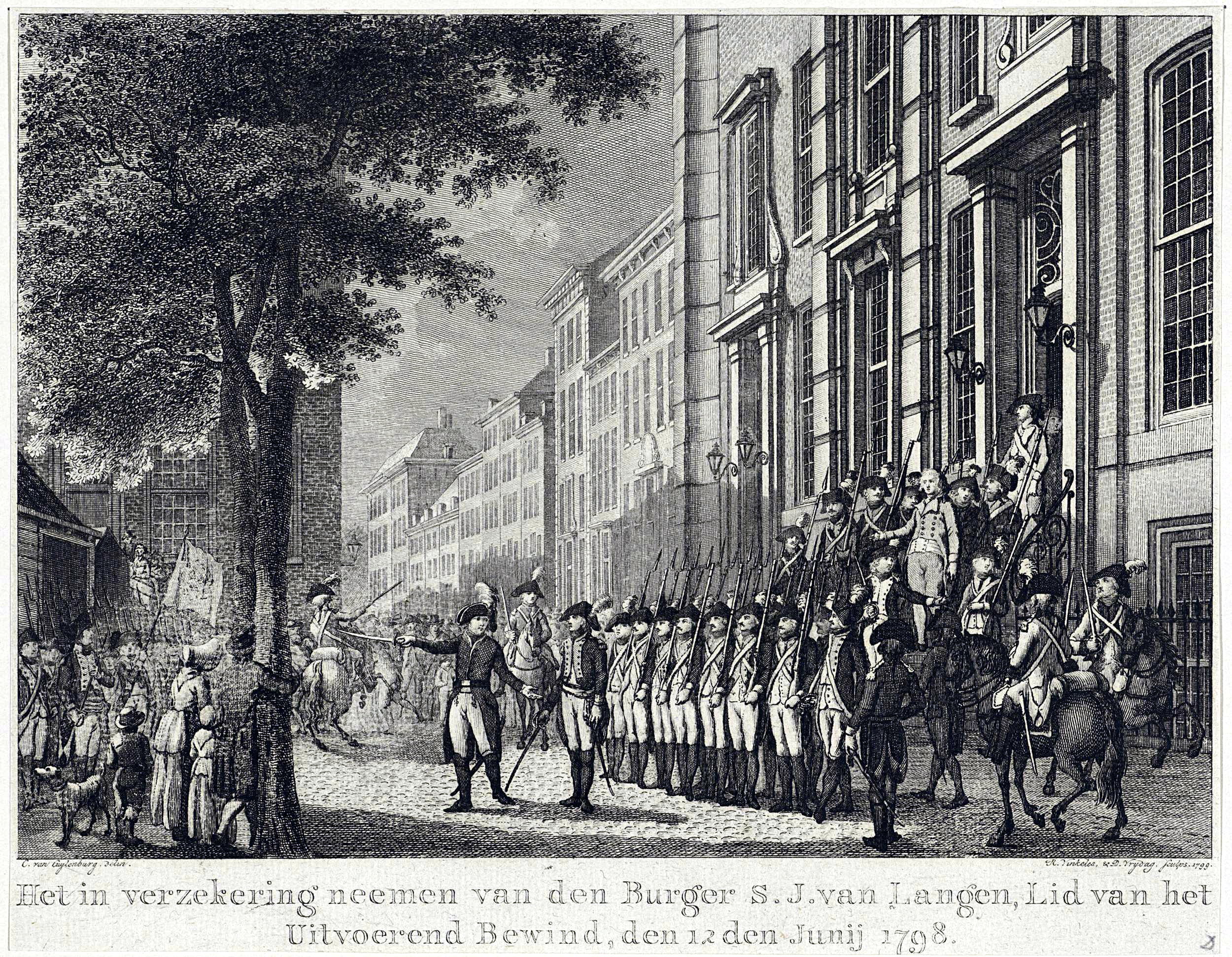 Detention of Stephanus Jacobus van Langen, member of the Executive Government, by a detachment of soldiers in front of the Logement at the Plein in The Hague, June 12, 1798. On charges of self-enrichment.